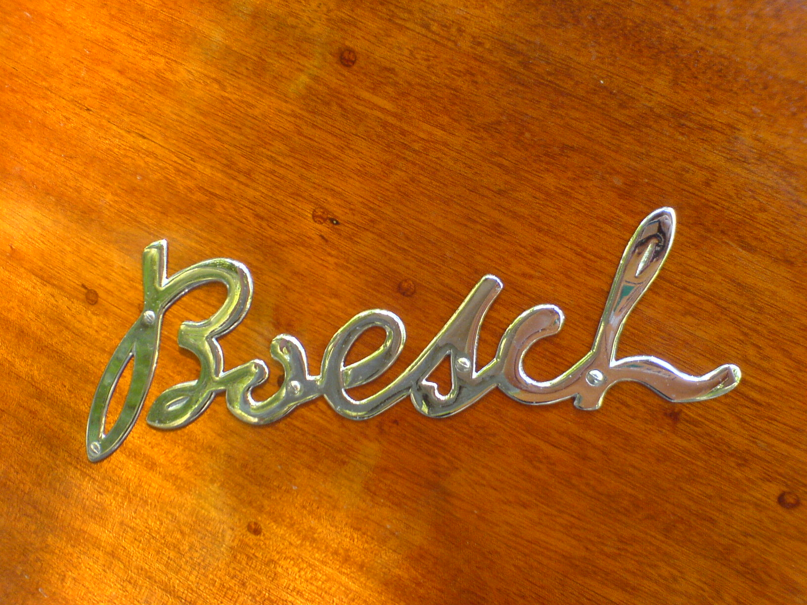 My Boesch logo